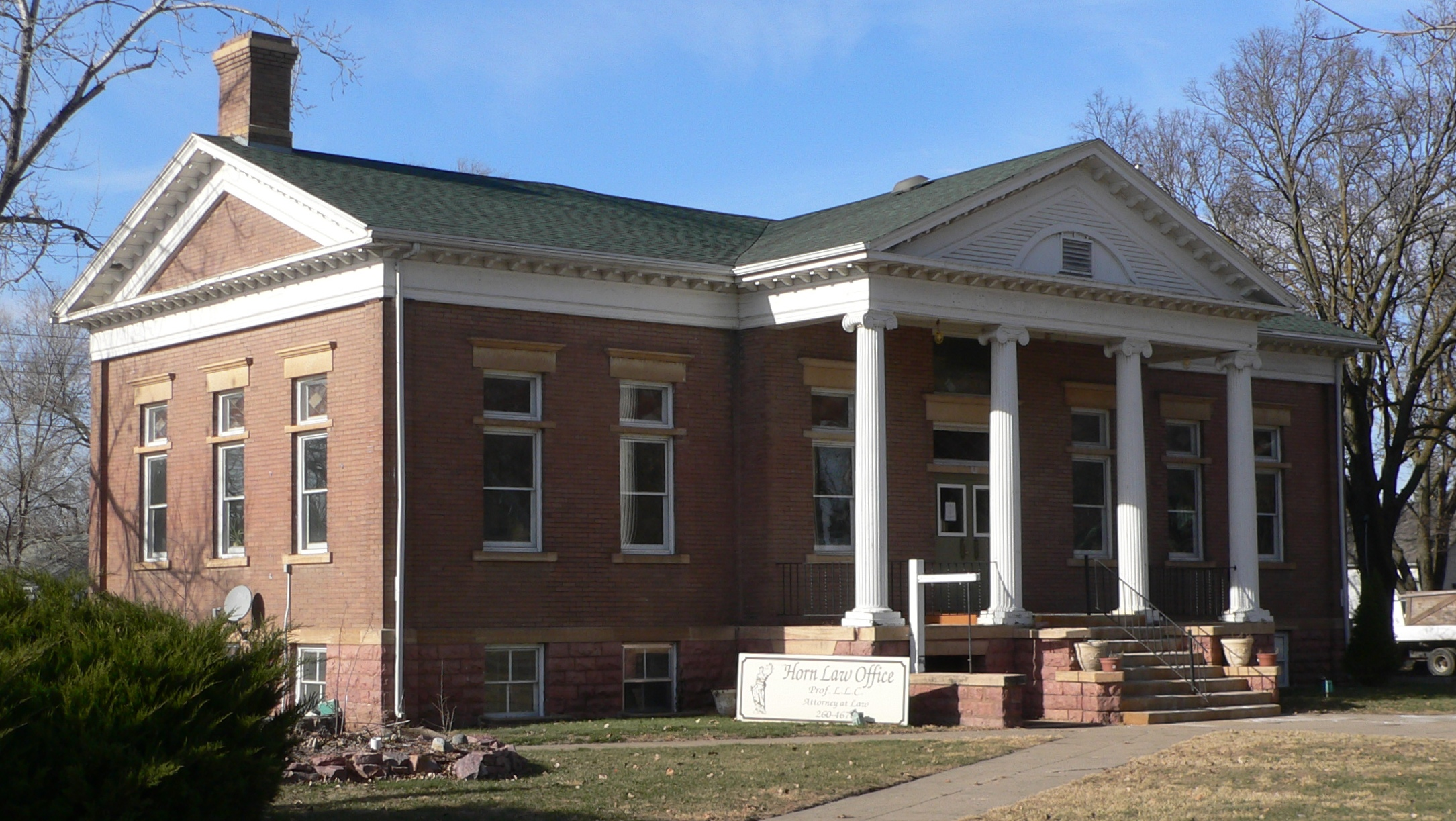 Yankton Carnegie Library, located at northwest corner of 4th and Capitol Streets in Yankton, South Dakota; seen from the southeast. The Classical Revival building was constructed in 1902. It is listed in the National Register of Historic Places.